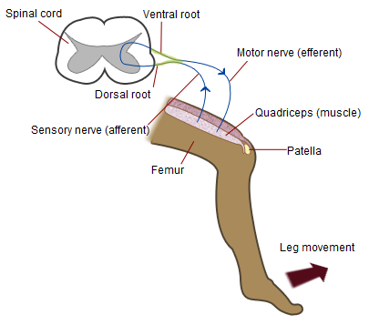 Diagram of Patellar (Knee) Reflex